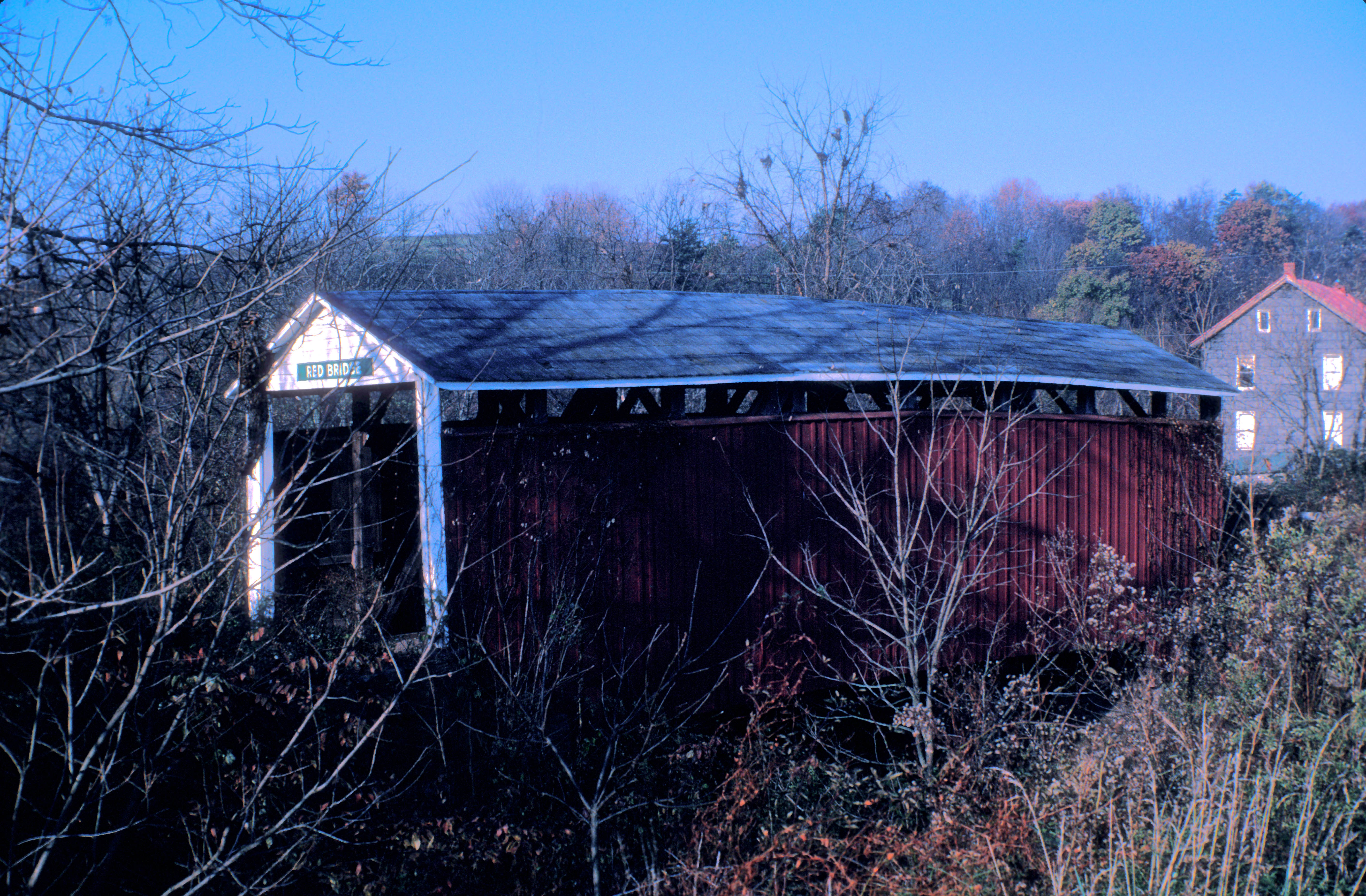 RED/WEAVER’S MILL OVER WILDCAT CREEK; 45’ MKING & QUEEN; 1886